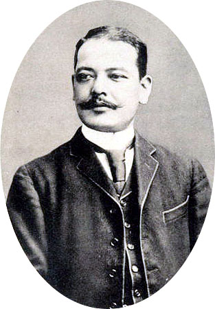 Yoshifuru Akiyama, a general of the Imperial Japanese Army (1859 - 1930).